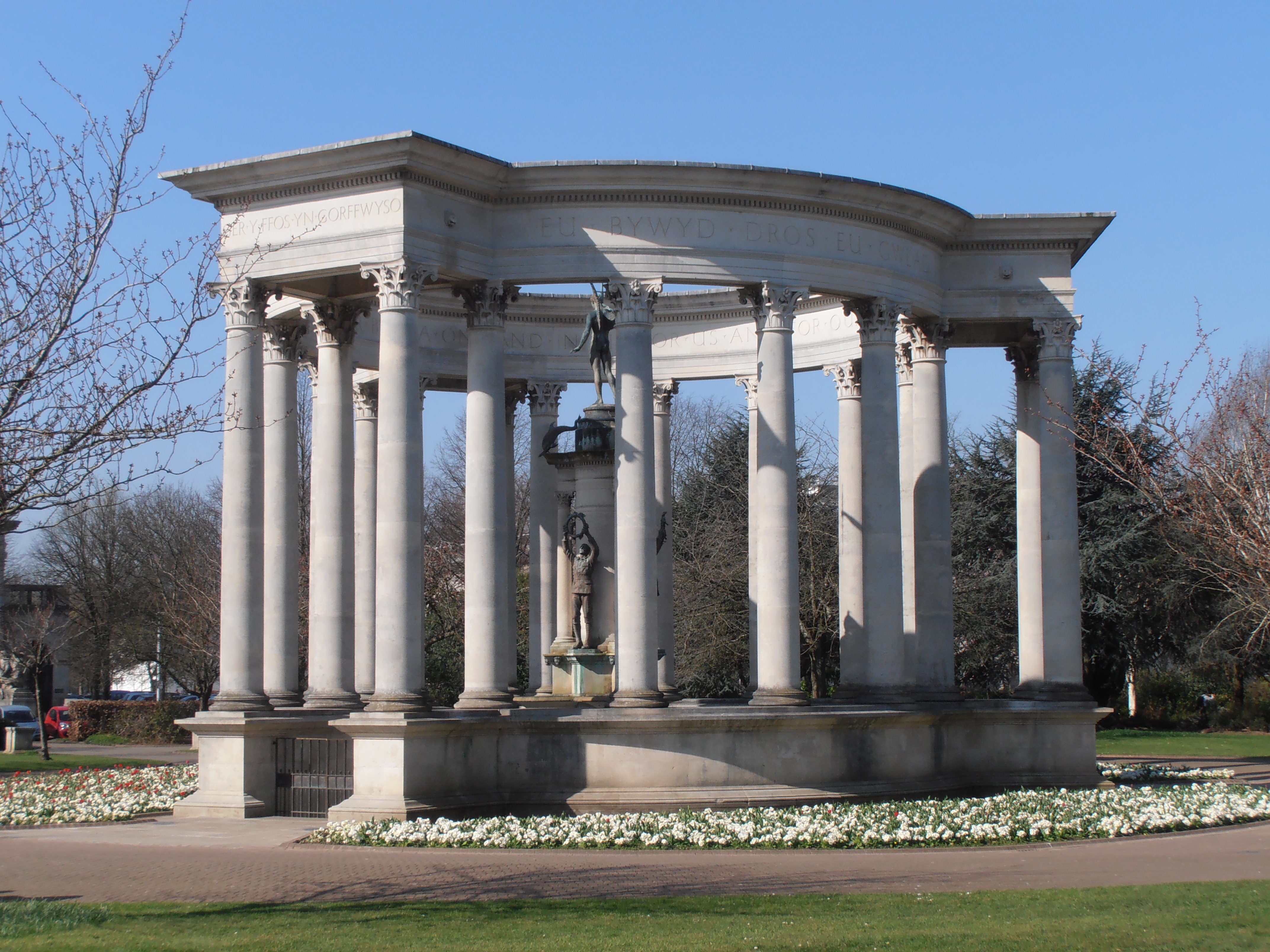 Welsh National War Memorial (1924–8), Alexandra Gardens, Cathays Park, Cardiff. Architect: Sir Ninian Comper. Sculptor: Bertram Pegram